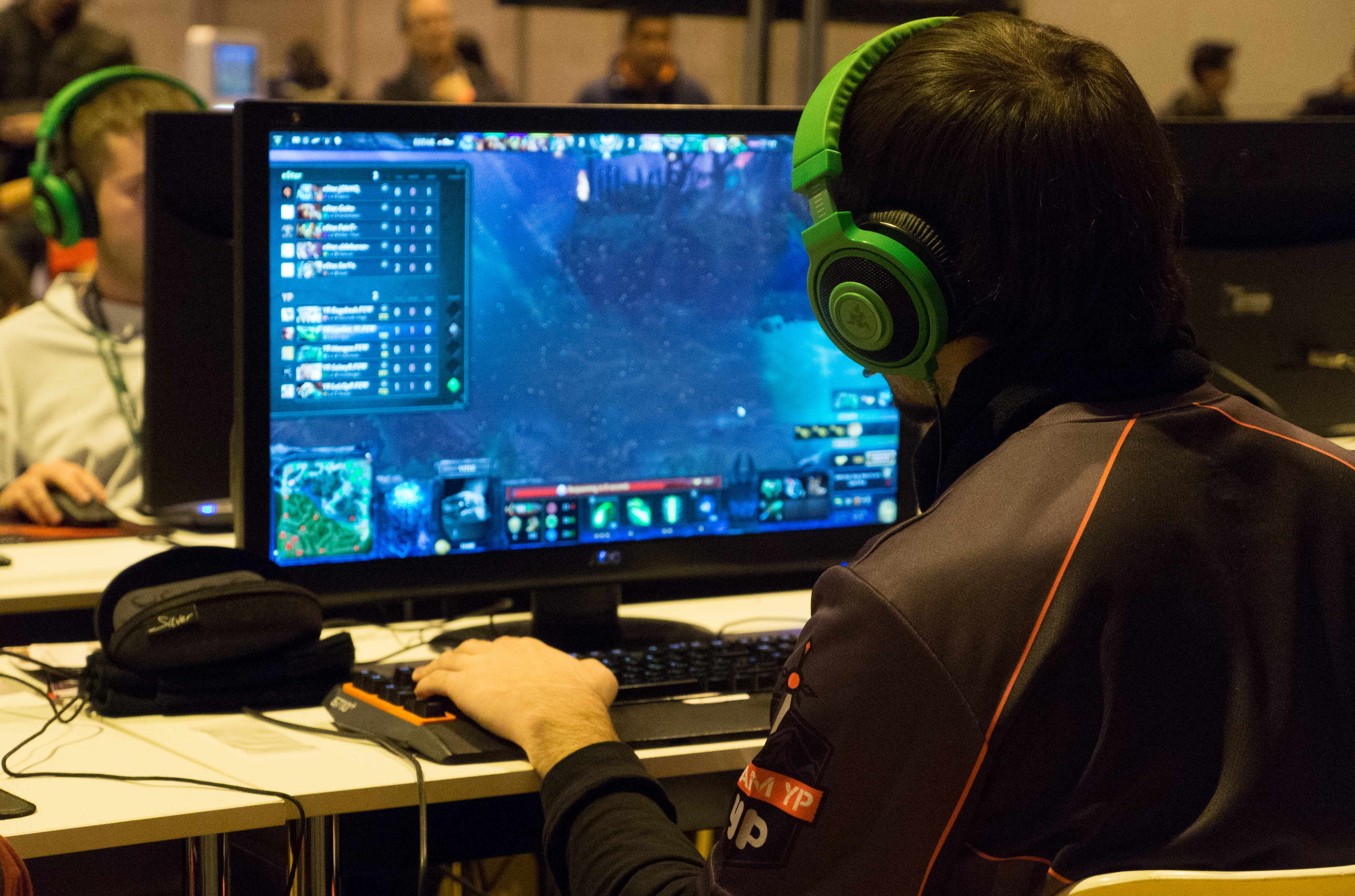 Player in Gamergy 2014